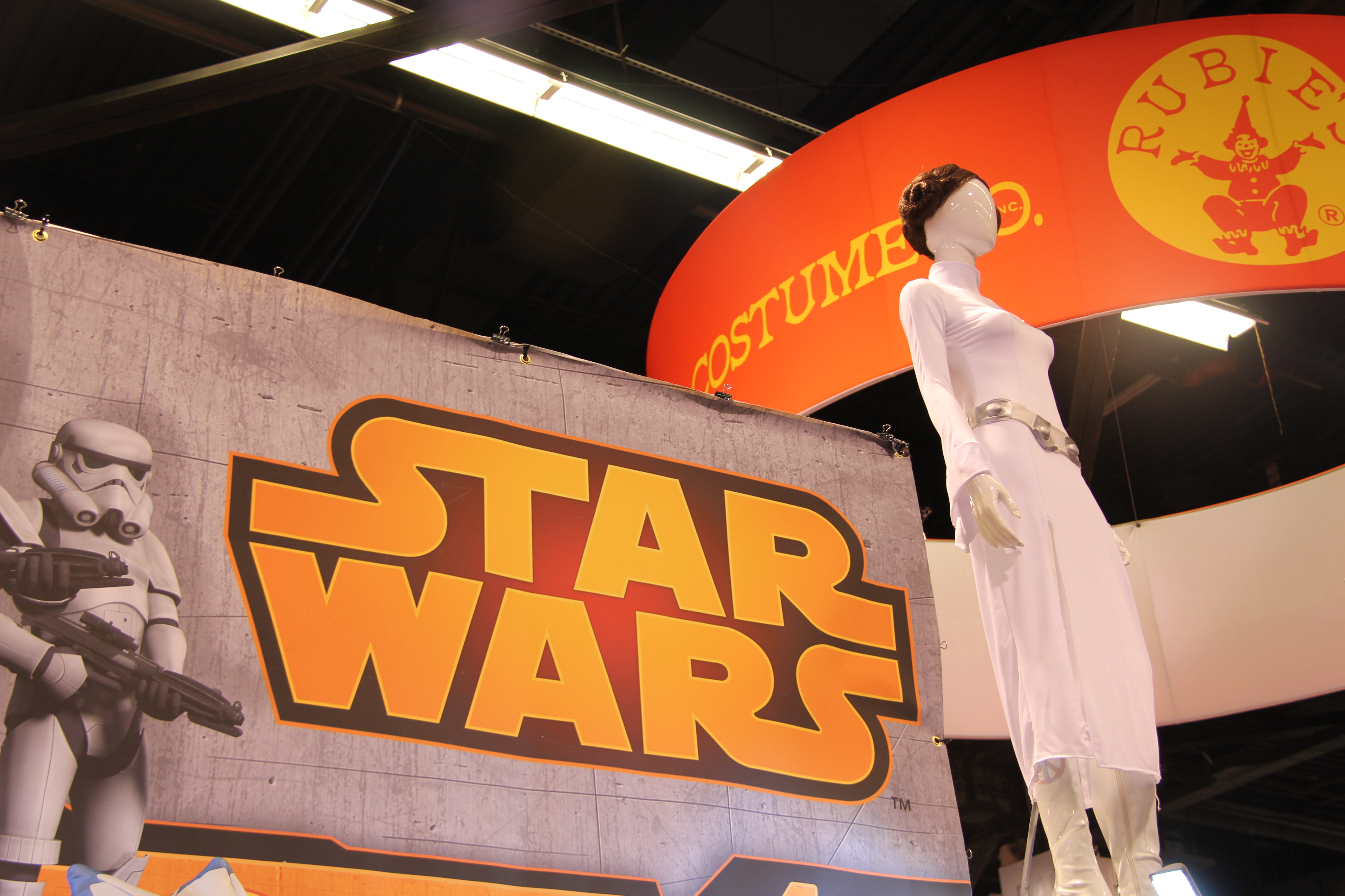 SWCA - Leia outfit Star Wars Celebration in Anaheim, April 2015.